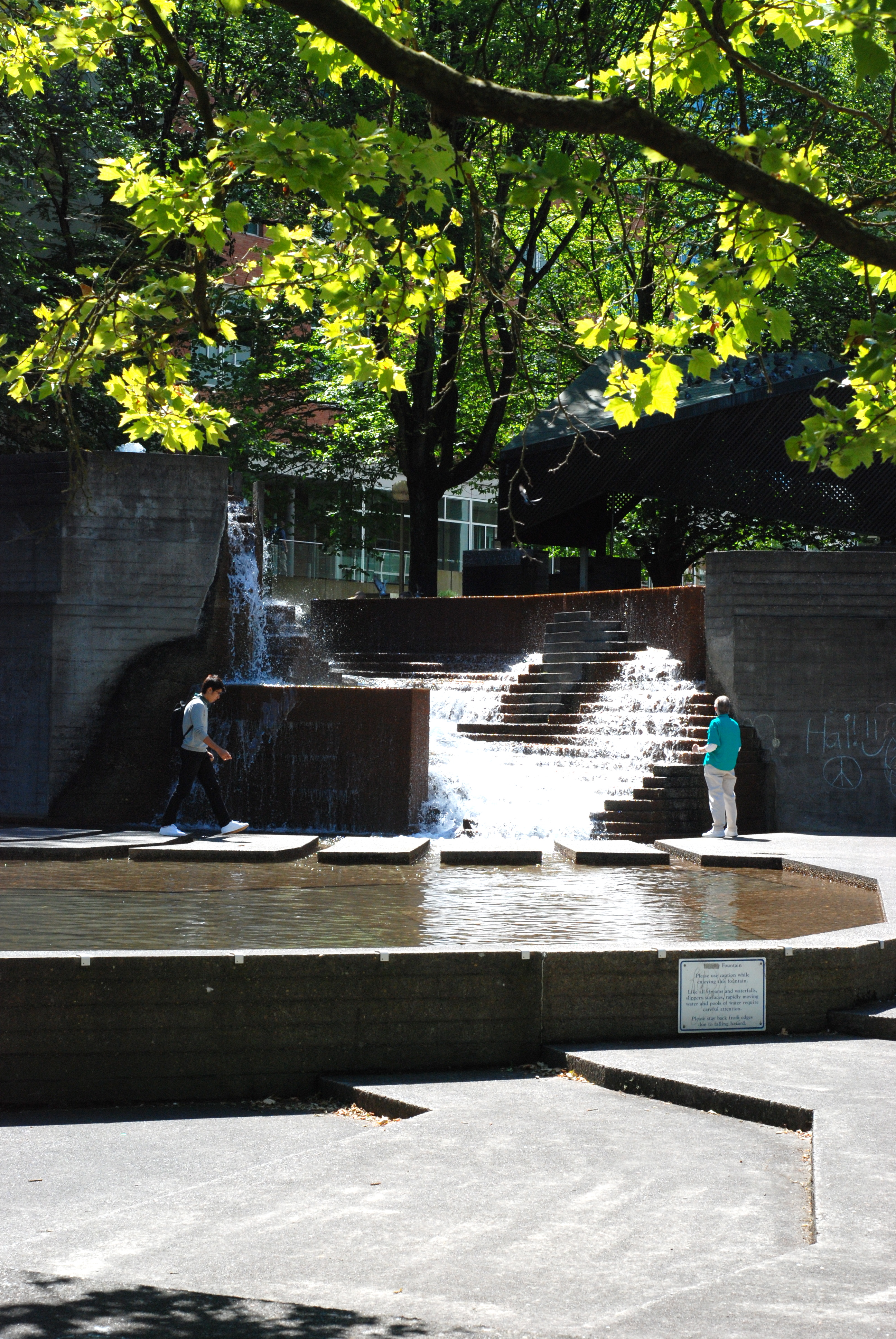 Lovejoy Fountain